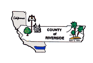 The official flag of Riverside County — in Southern California.